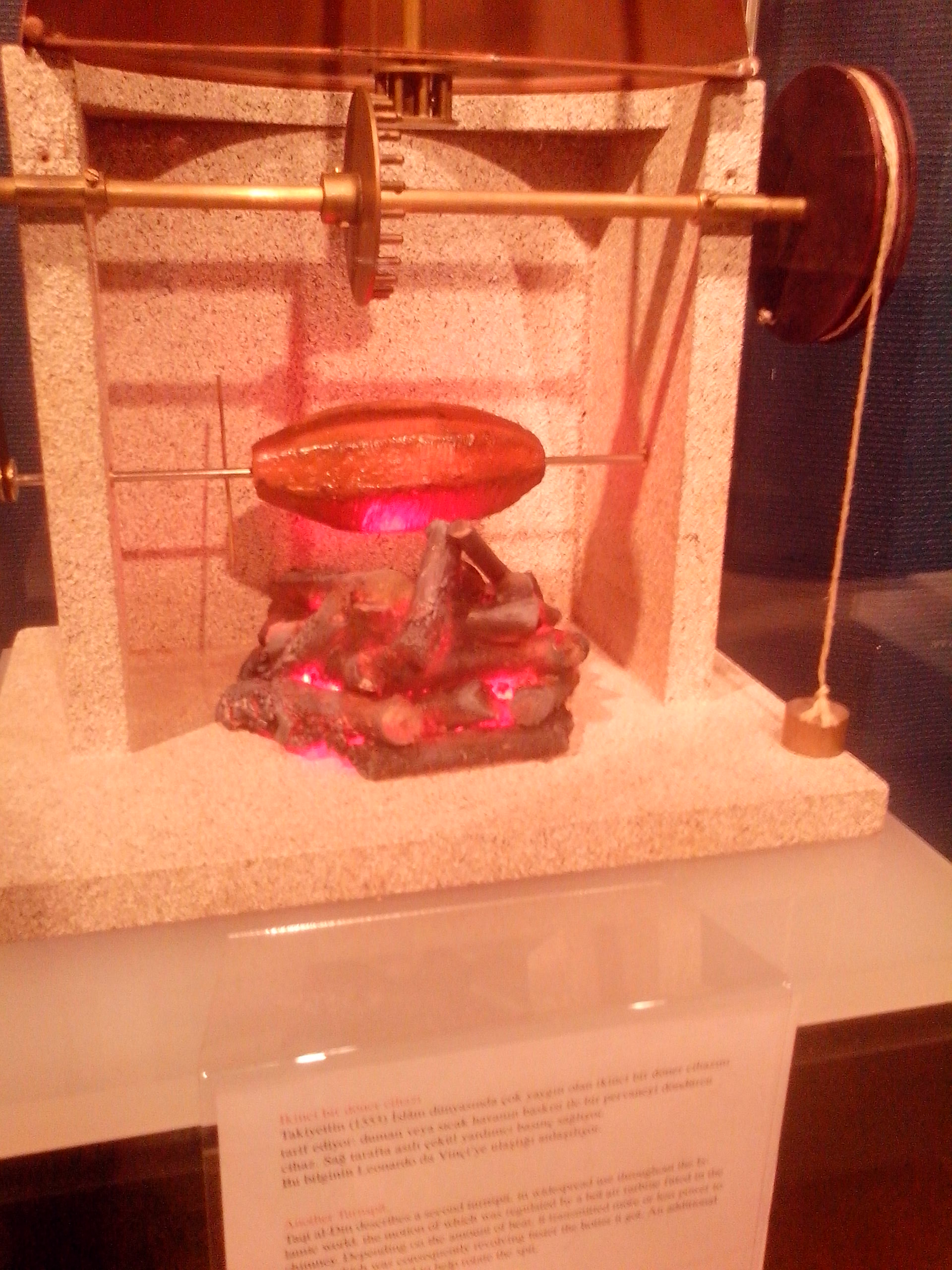 Doner Table Works with steam energy from Islamic Technology Museum, Istanbul